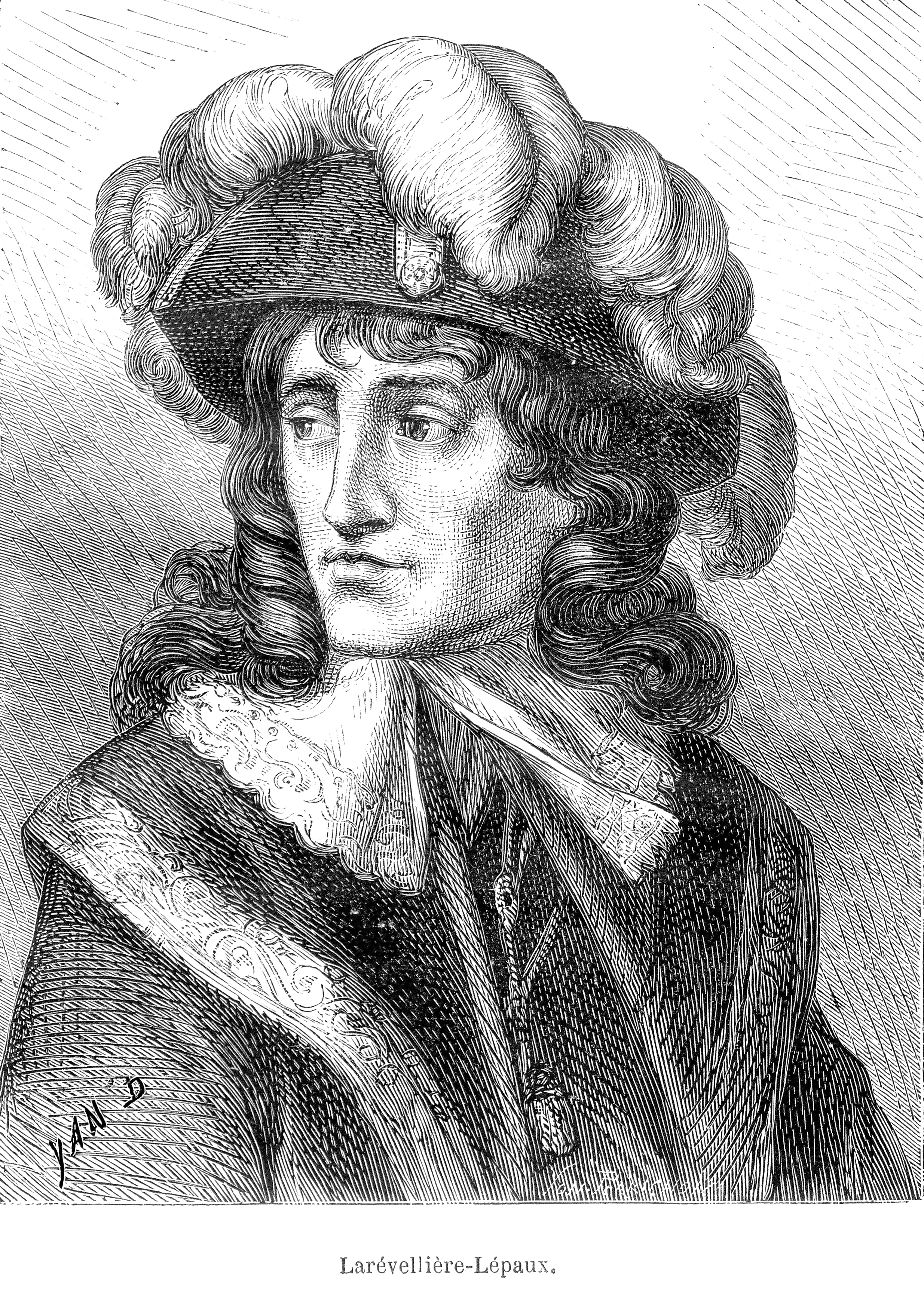 Louis-Marie de La Revellière-Lépeaux, one of the five first Directors of the executive Directory of the French Republic in 1795